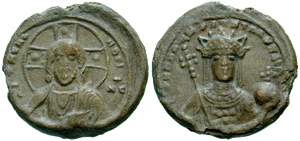 BYZANTINE. LEAD SEAL. Eirene Doukaina, wife of Alexios I (1081-1118 AD) and daughter of Andronikos Doukas. PB (13.86 gm). Bust of Christ facing, with nimbus and cross, wearing chiton and himation; right hand in benediction and in left, book of Gospels / Bust of Eirene facing, wearing crown with triple pendants; holding in right hand sceptre and in left, globus cruciger. Zacos I 103a. Light brown tone, VF. Of high artistic merit.